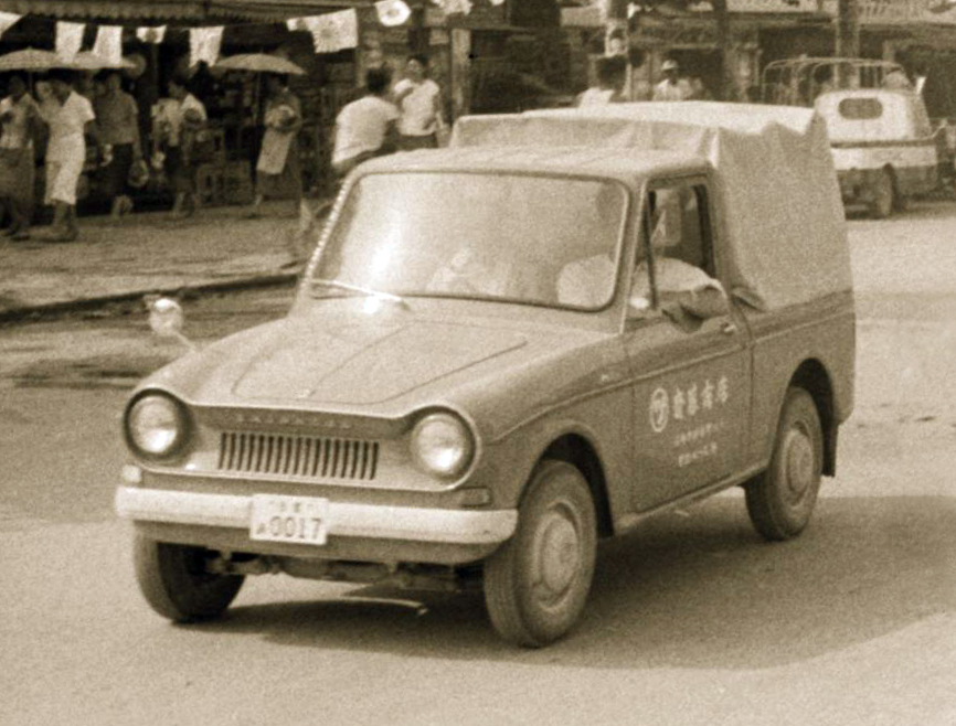 Daihatsu Hijet in street of Ishinomaki, an early sixties scene in Japan